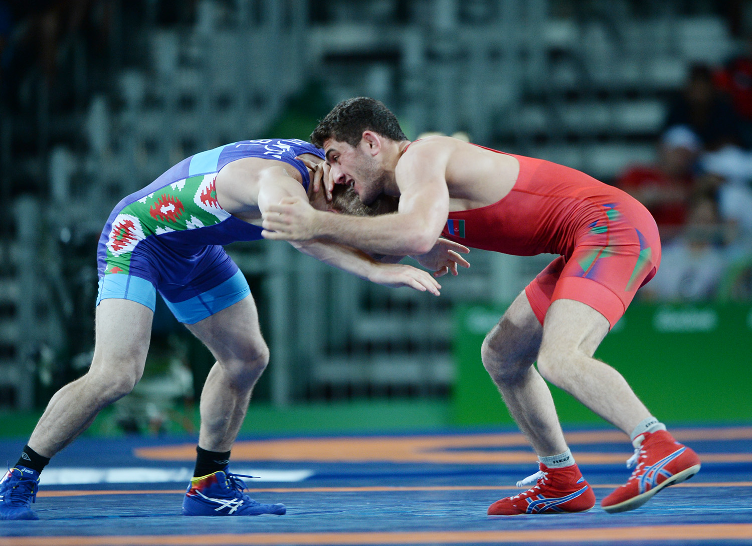 Wrestling at the 2016 Summer Olympics, Aliyev vs Dubov